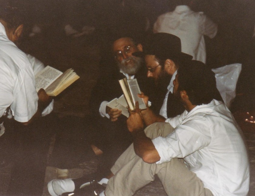 saying Kinot in the Wailing Wall, Tisha Be'av